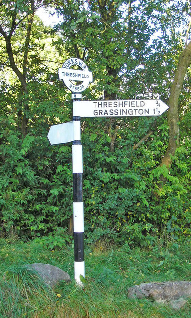 Signpost near Skirethorns The blank finger is pointing to Bordley via a rough road. The grid reference is shown on the circle.